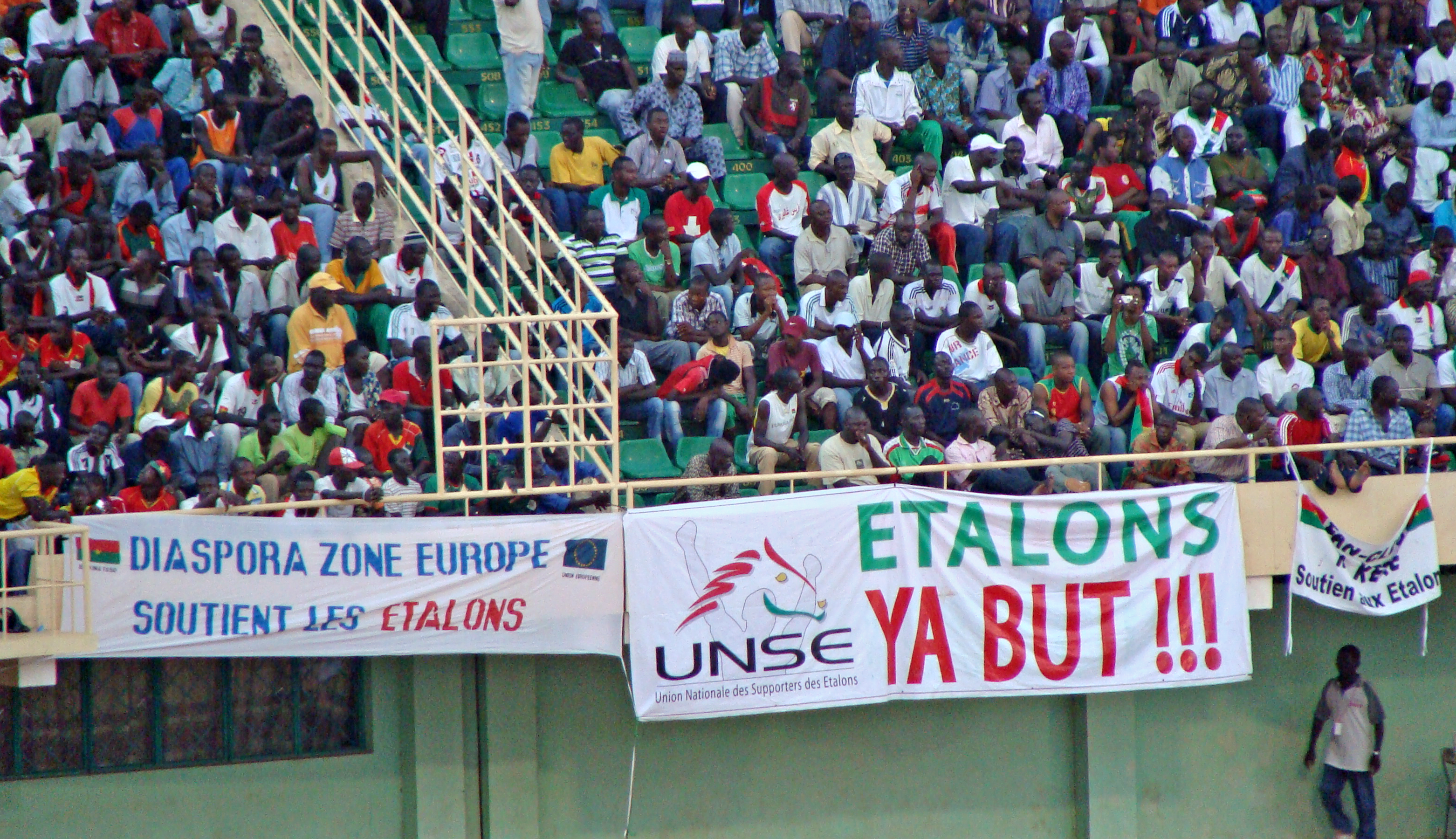 Burkina Faso: Supporters of the Burkina Faso soccer team